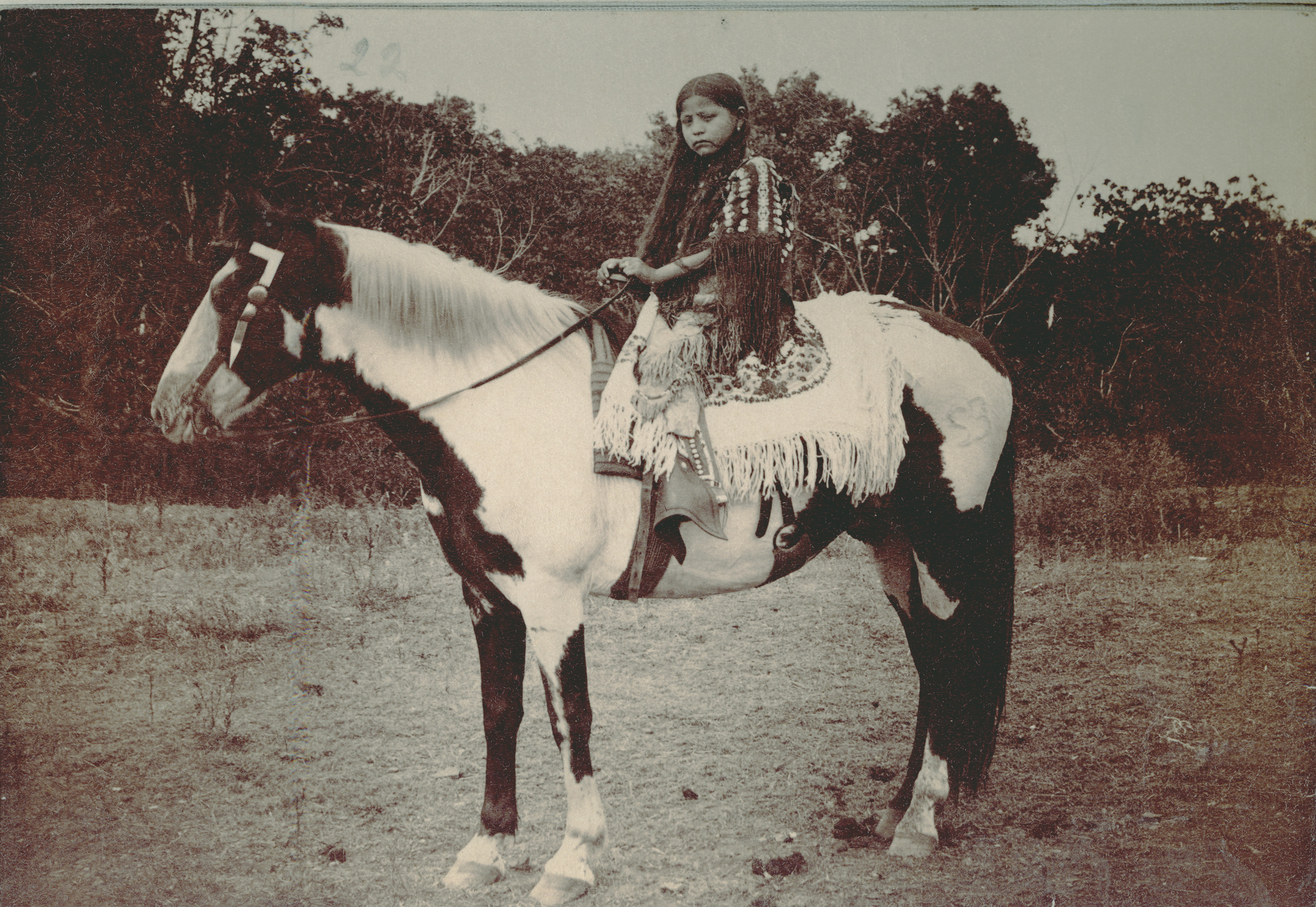 Title: Kiowa girl on a horse.